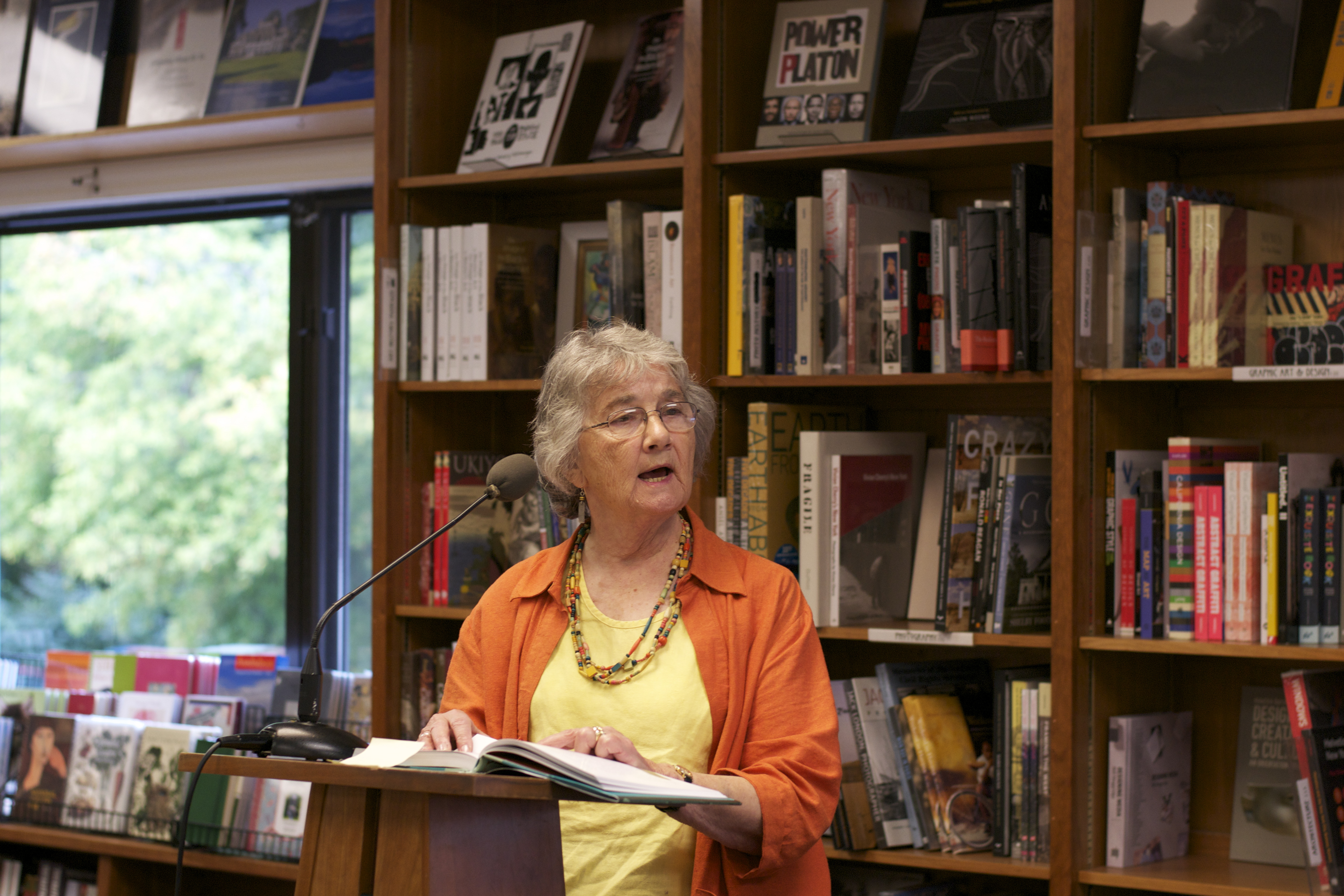 Katherine Paterson-- Flint Heart (Children's and Teens' Department)